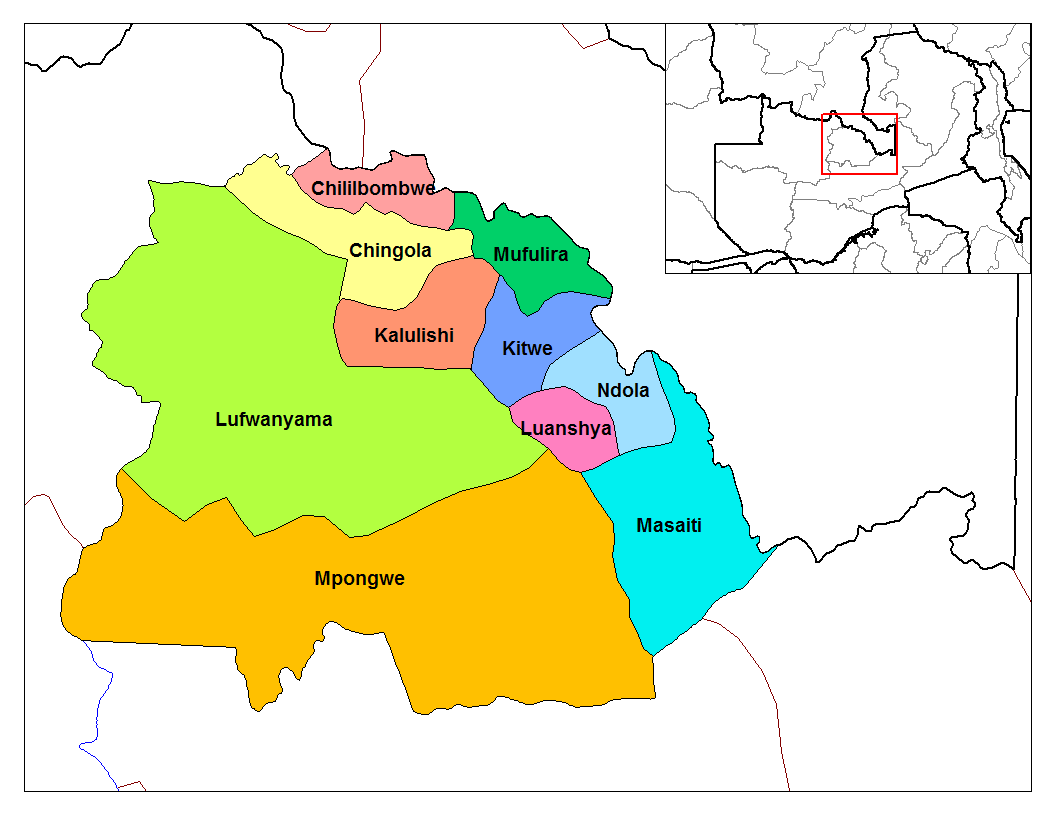 Map of the districts of Copperbelt province in Zambia. Created by Rarelibra 15:34, 28 December 2006 (UTC) for public domain use, using MapInfo Professional v8.5 and various mapping resources.